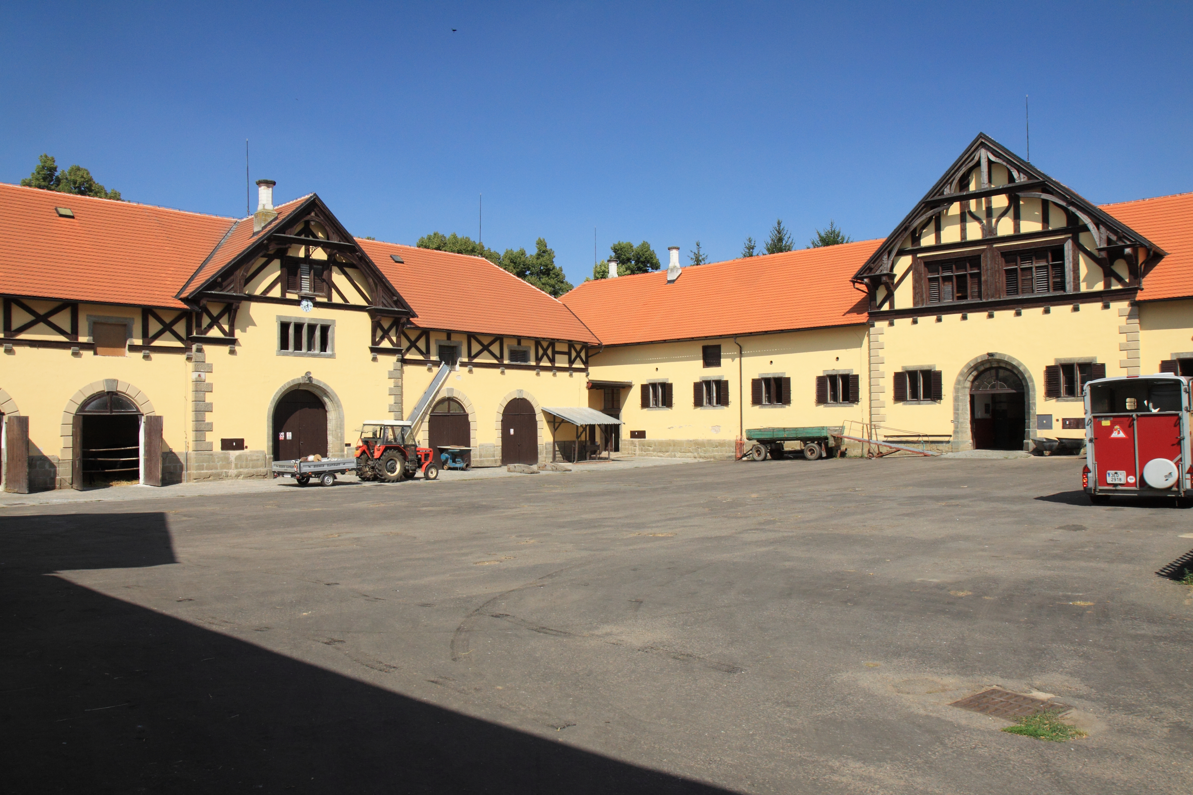 Yard of the stud farm in Slatiňany (Czech Republic)